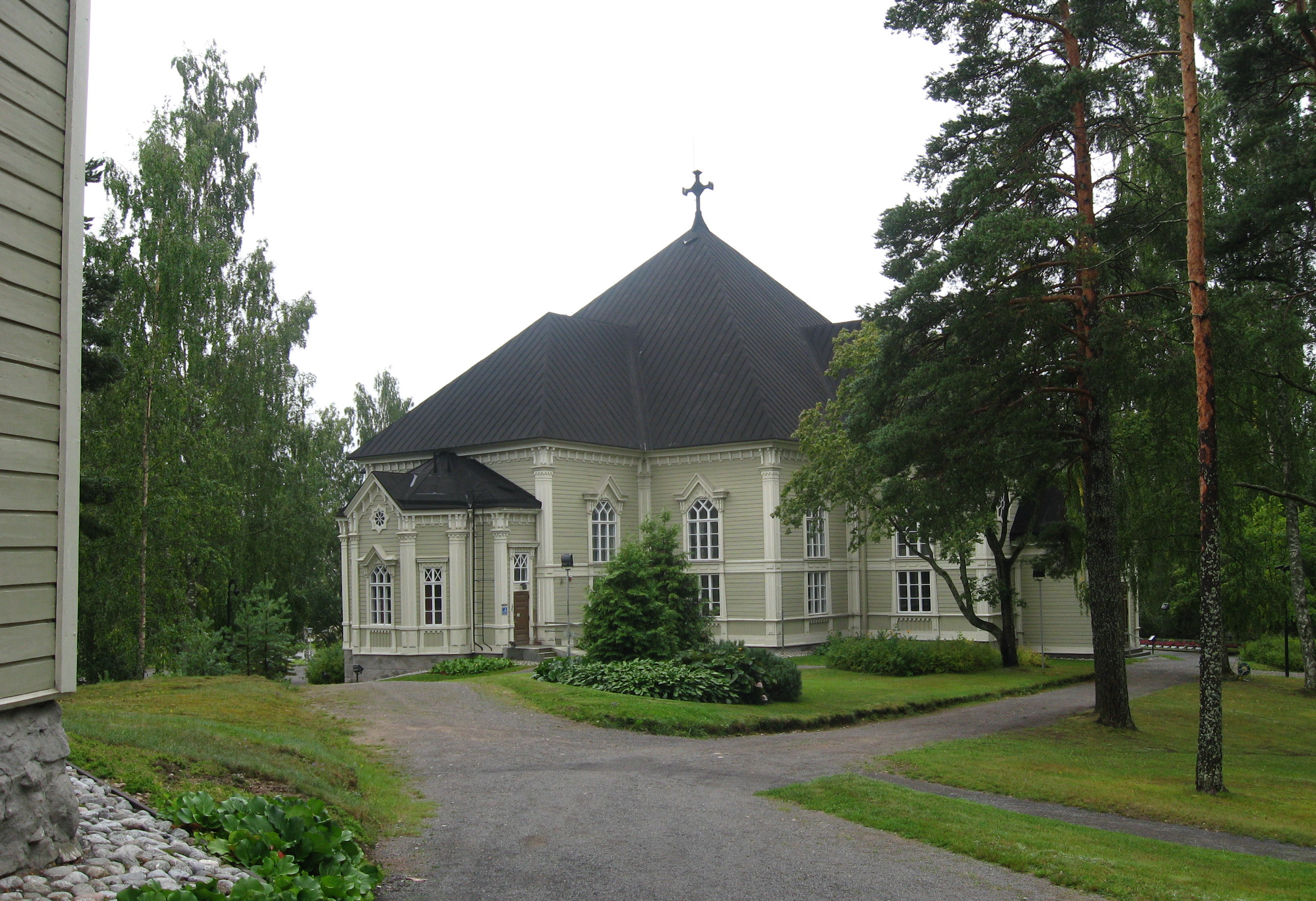 Kangasniemi church, Kangasniemi, Finland. Completed 1814.